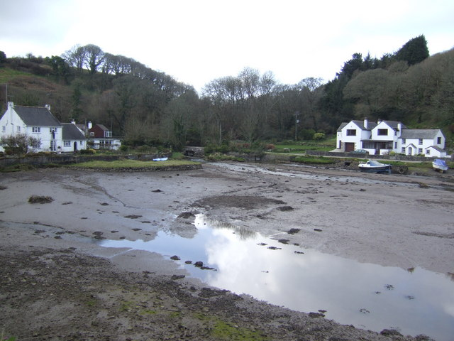 Head of Gillan Creek At low tide